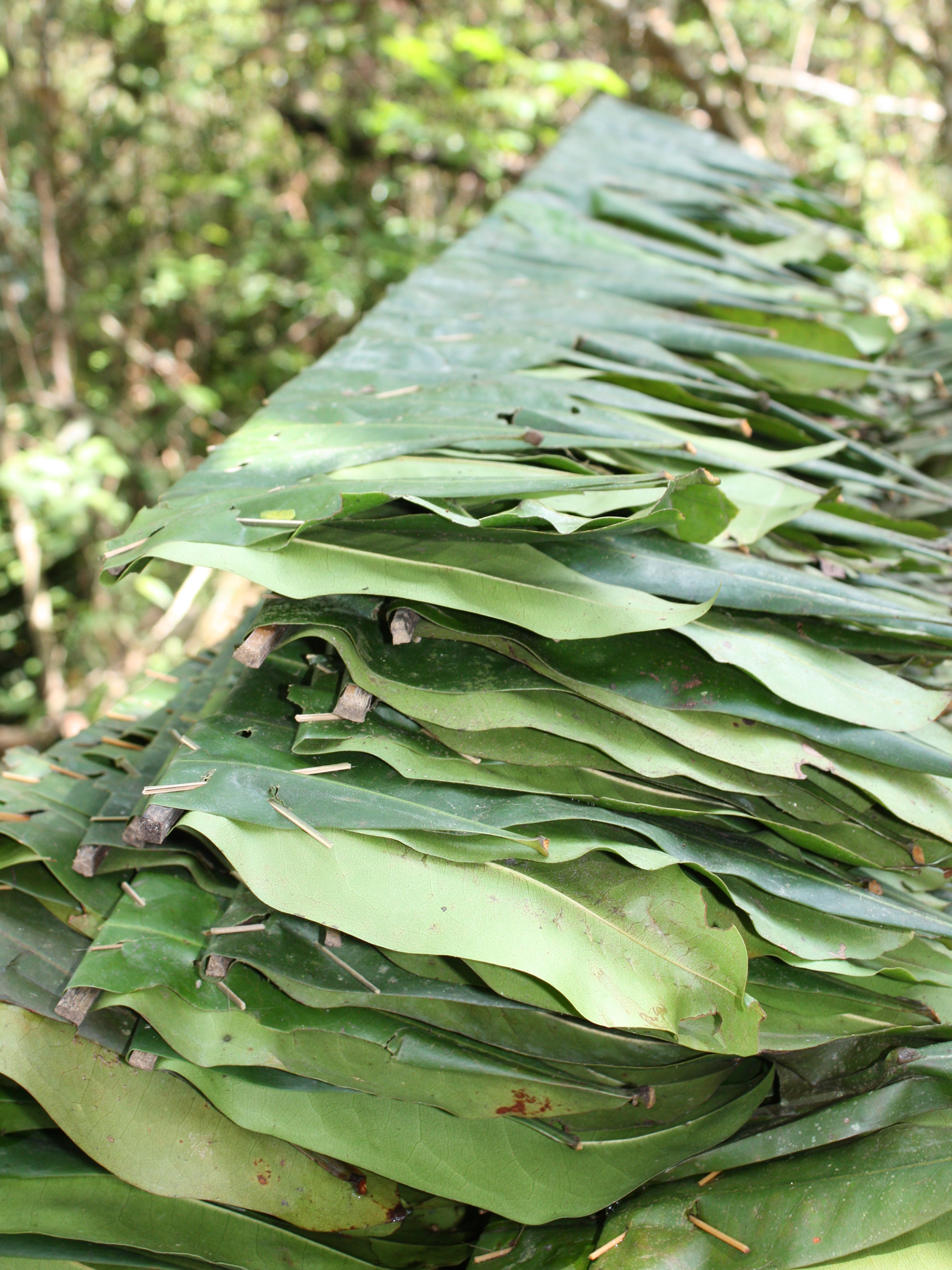 Ancistrocladus tectorius leaves prepared for roofing in Cat Tien National Park - Roy Bateman